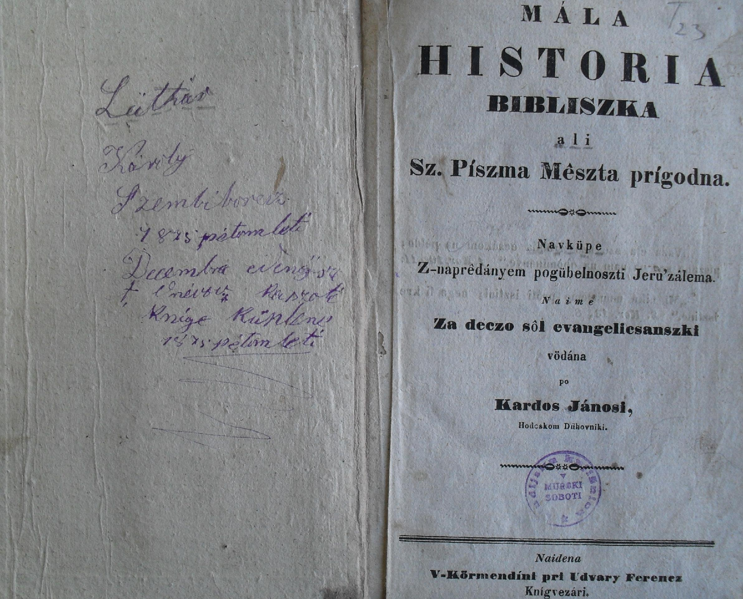 Mála historia bibliszka (Small history of Bible), prekmurian (prekmurščina) short-translation of Bible from János Kardos (1801-1873). Sometime was the property of Lüttár Károly from Sebeborci.